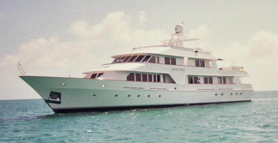 Yacht Monte Carlo at anchor